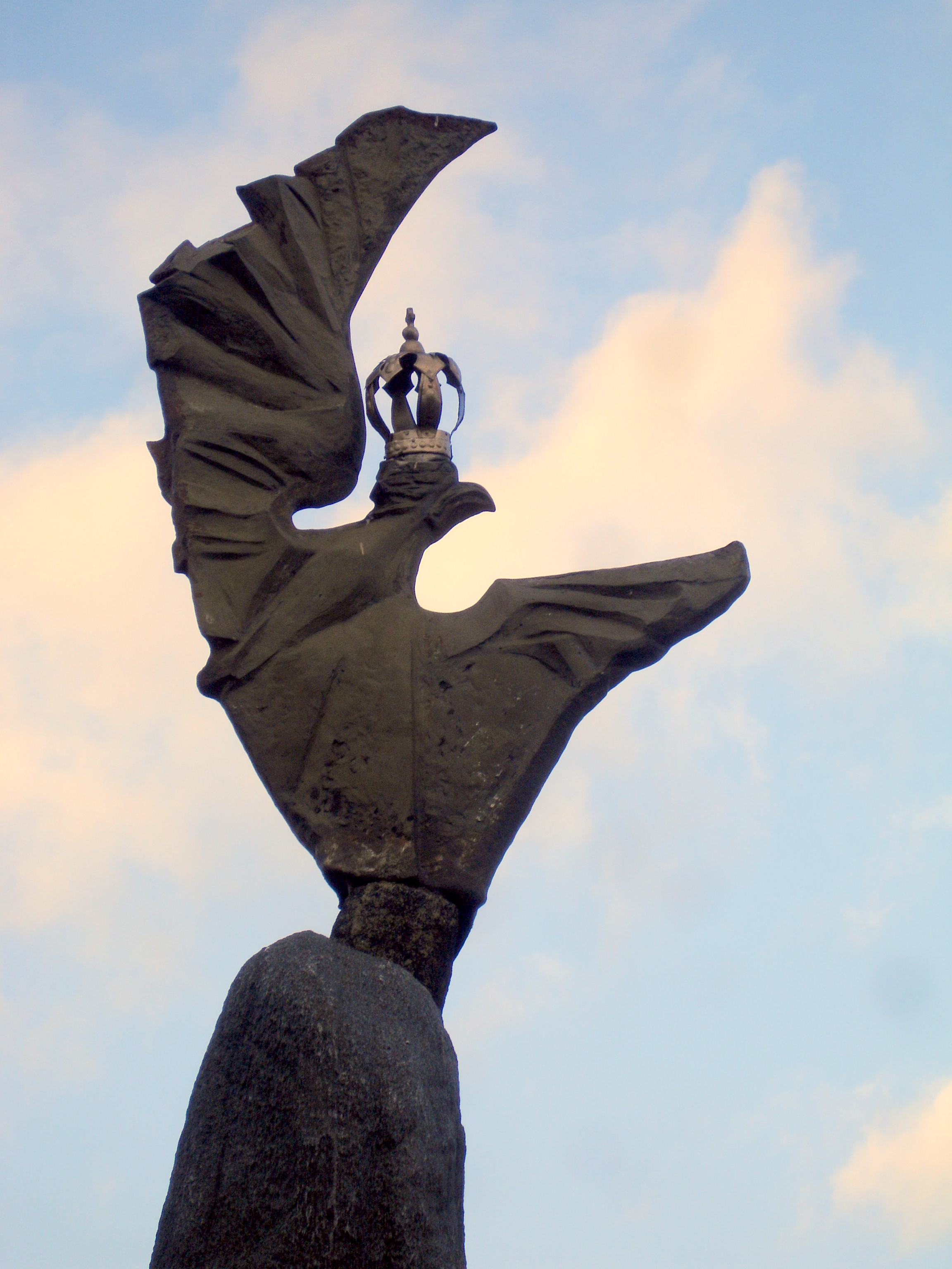 Orzeł w koronie - Pomnik 200-lecia Konstytucji 3 Maja i Odzyskania Niepodległości w Lesznie